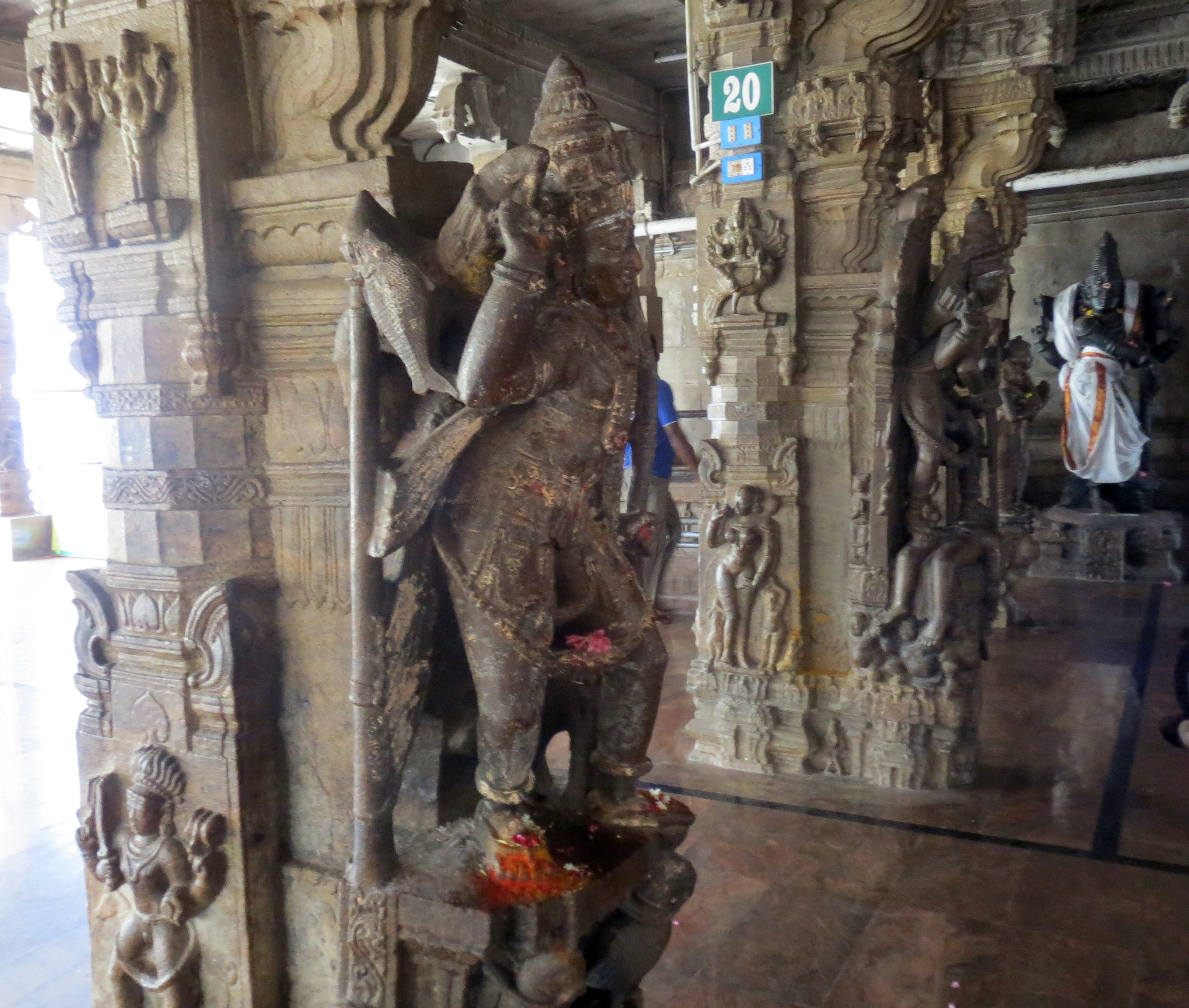 Thiruchengodu Arthanareeswarar Temple -Sculpture